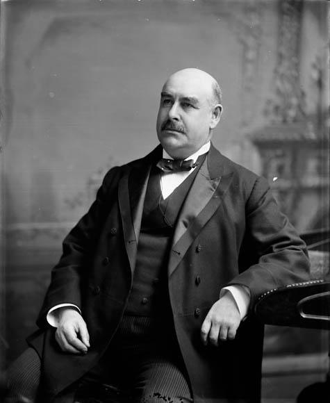 The Hon. Mr. Justice George Edwin King, (Judge of the Supreme Court of Canada) b. Oct. 8, 1839 - d. May 7, 1901.